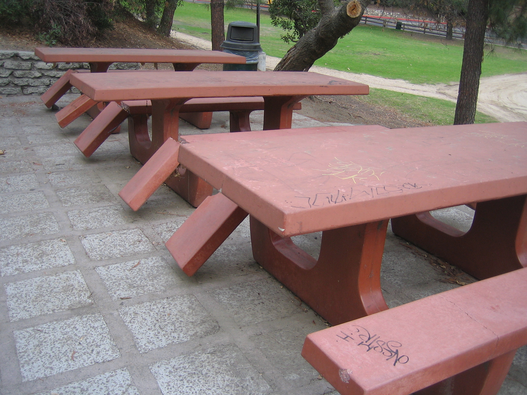 Vandalism at Griffith Park (south side) in Los Angeles, California. Shown here are picnic tables with seats that have been destroyed and tagged. Like most public parks in Los Angeles County, Griffith Park suffers from vandalism by local street gangs.